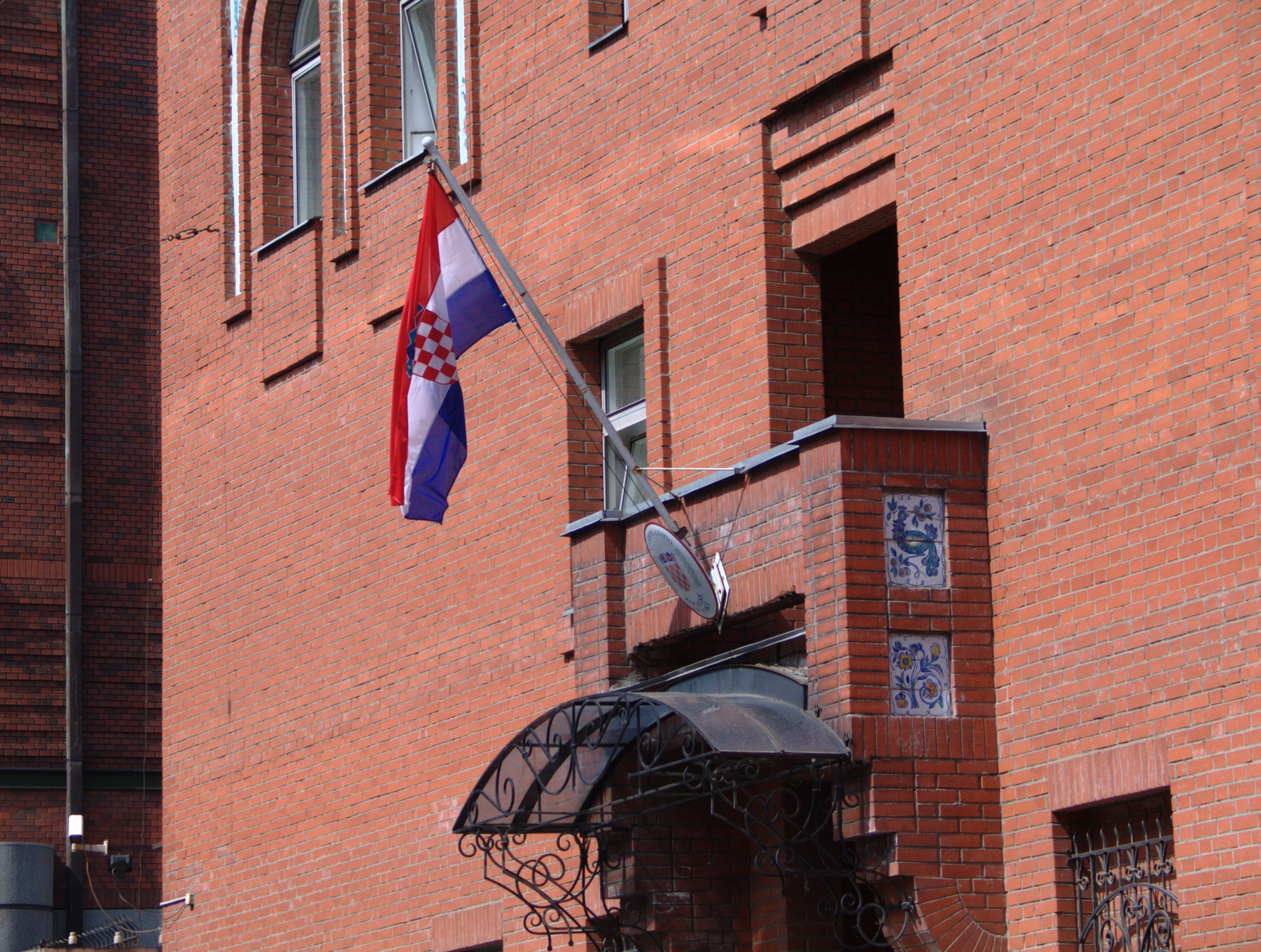 Croatia flag on the Embassy of Croatia in Moscow (Korobeynikov side-street 16/10).